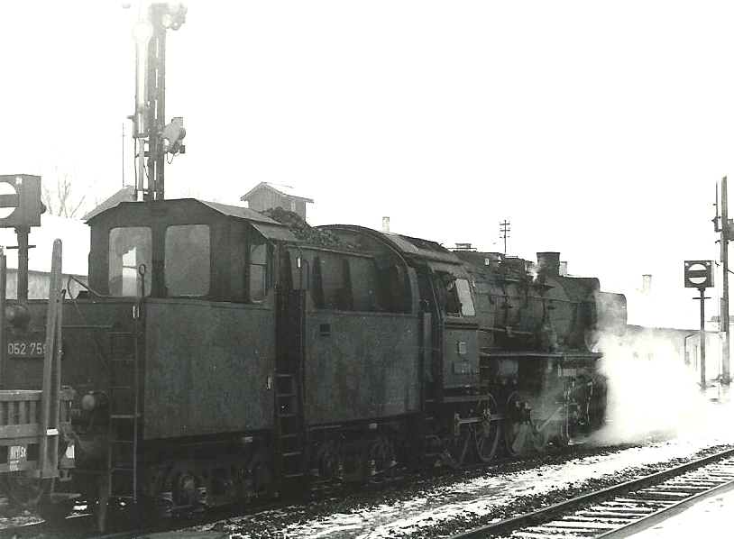 DB Class "50" (DRB Class "50UK") 2-10-0 No.052 759 (DRB No.50 2759) with 2'2'T26 Kab tender at Craisheim with a freight, 02/73. Scanned photograph taken with an Exacta camera.